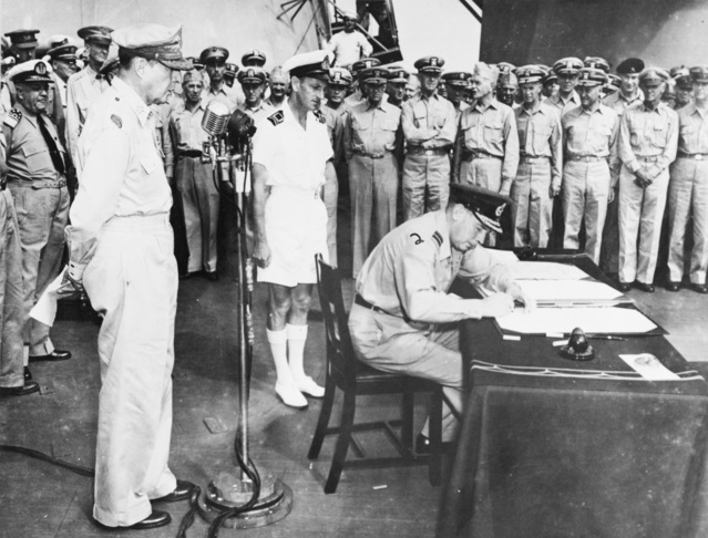 AWM caption: Tokyo Bay, Japan -- Surrender of Japanese aboard USS Missouri. Air Vice Marshal Leonard M. Isitt, representing the Dominion of New Zealand, signs the instrument of surrender watched by an officer of the Royal New Zealand Navy. General Douglas MacArthur, Supreme Allied Commander, stands at the microphone.